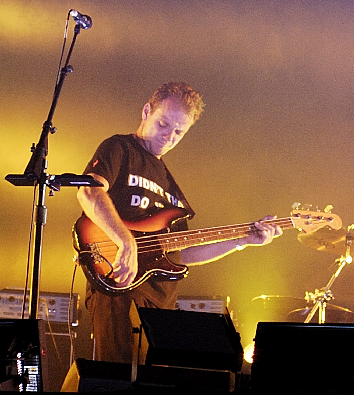 Guy Pratt, longterm Pink Floyd and David Gilmour bassist